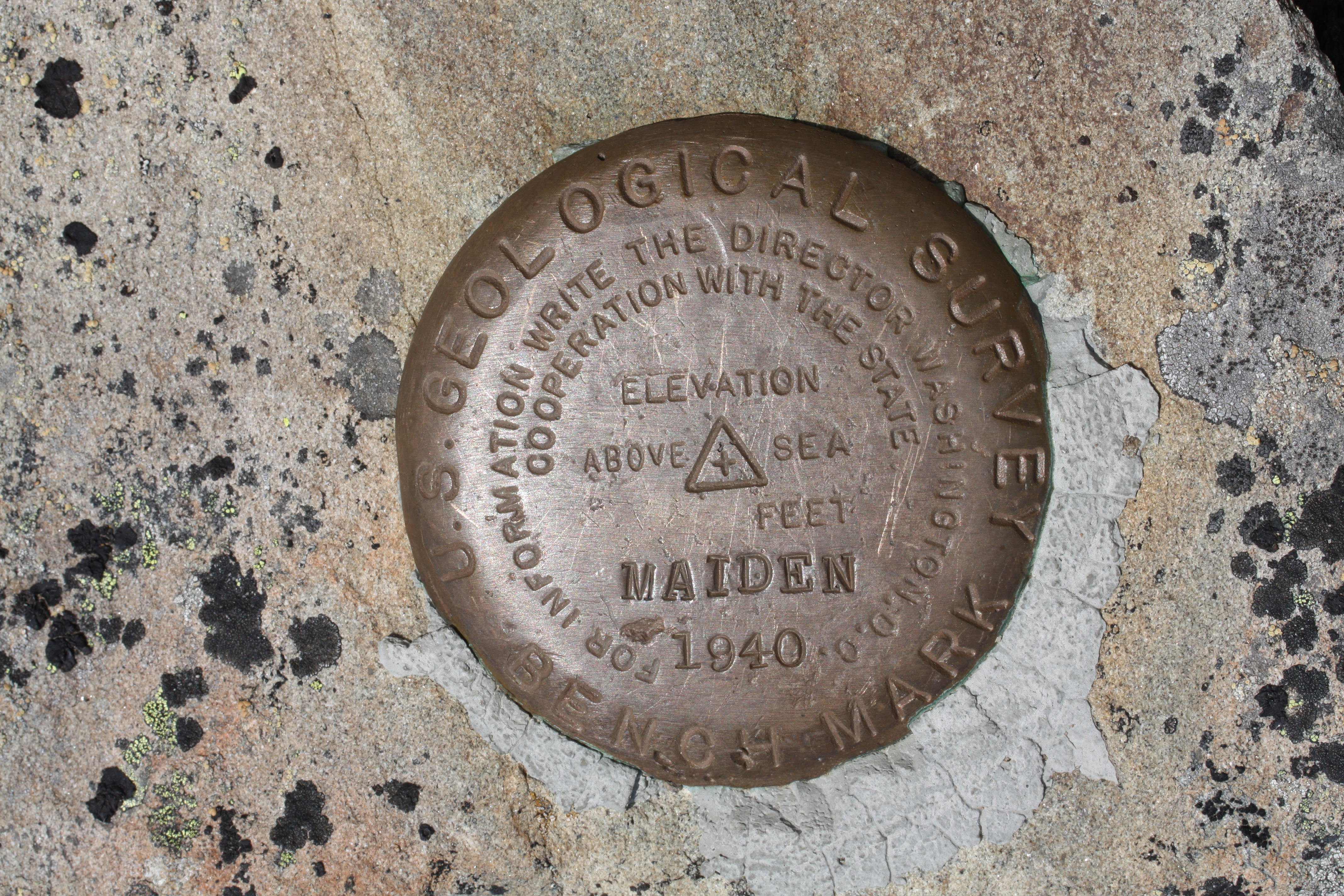 United States National Geodetic Survey marker "MAIDEN 1940"; Maiden Peak (Washington); 6434 feet, 1961 m DESIGNATION - KNOB [1] PID - SY1638 STATE/COUNTY- WA/CLALLAM USGS QUAD - MAIDEN PEAK (1990) NAD 83(1991)- 47 56 07.29022(N) 123 18 48.68973(W) ADJUSTED